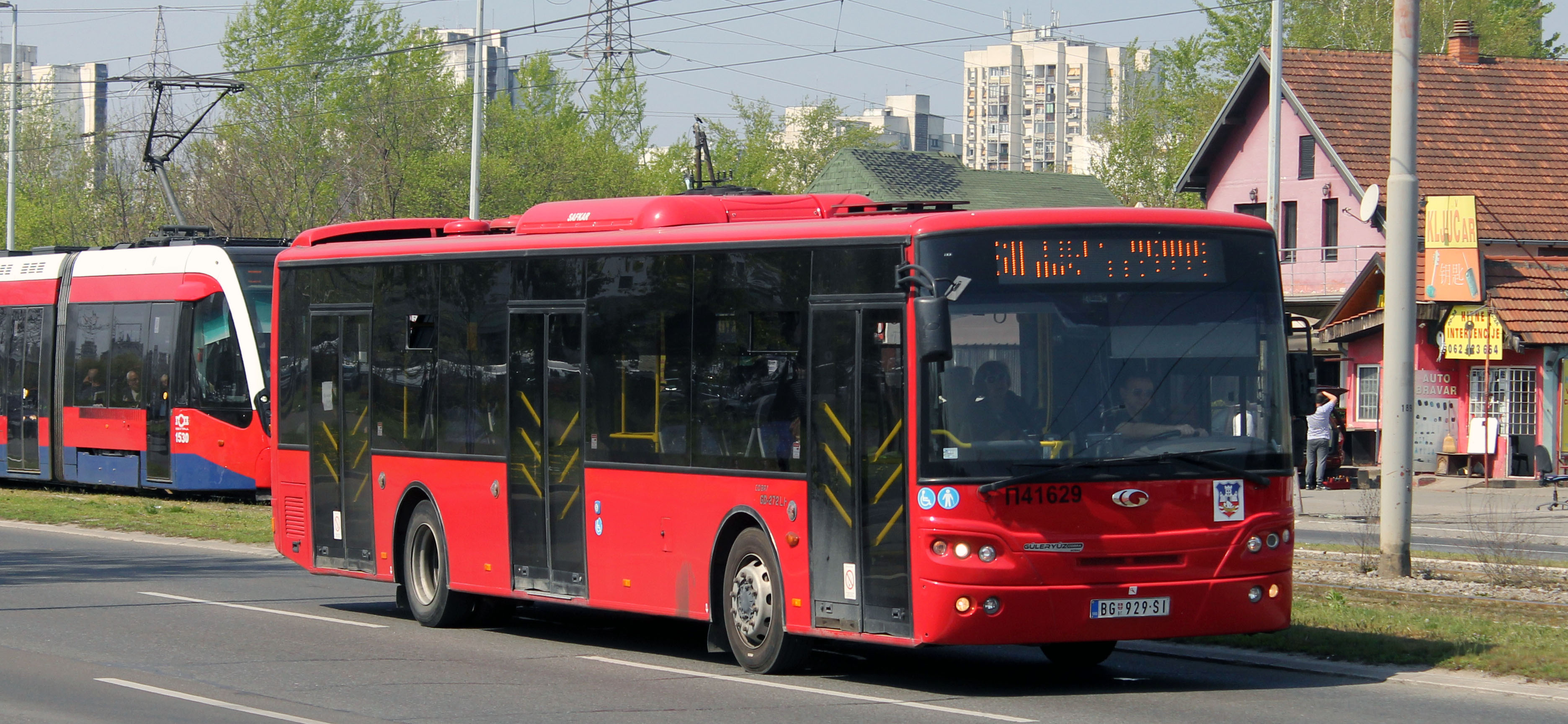 Cobra GD-272LF city bus of private company at Belgrade.